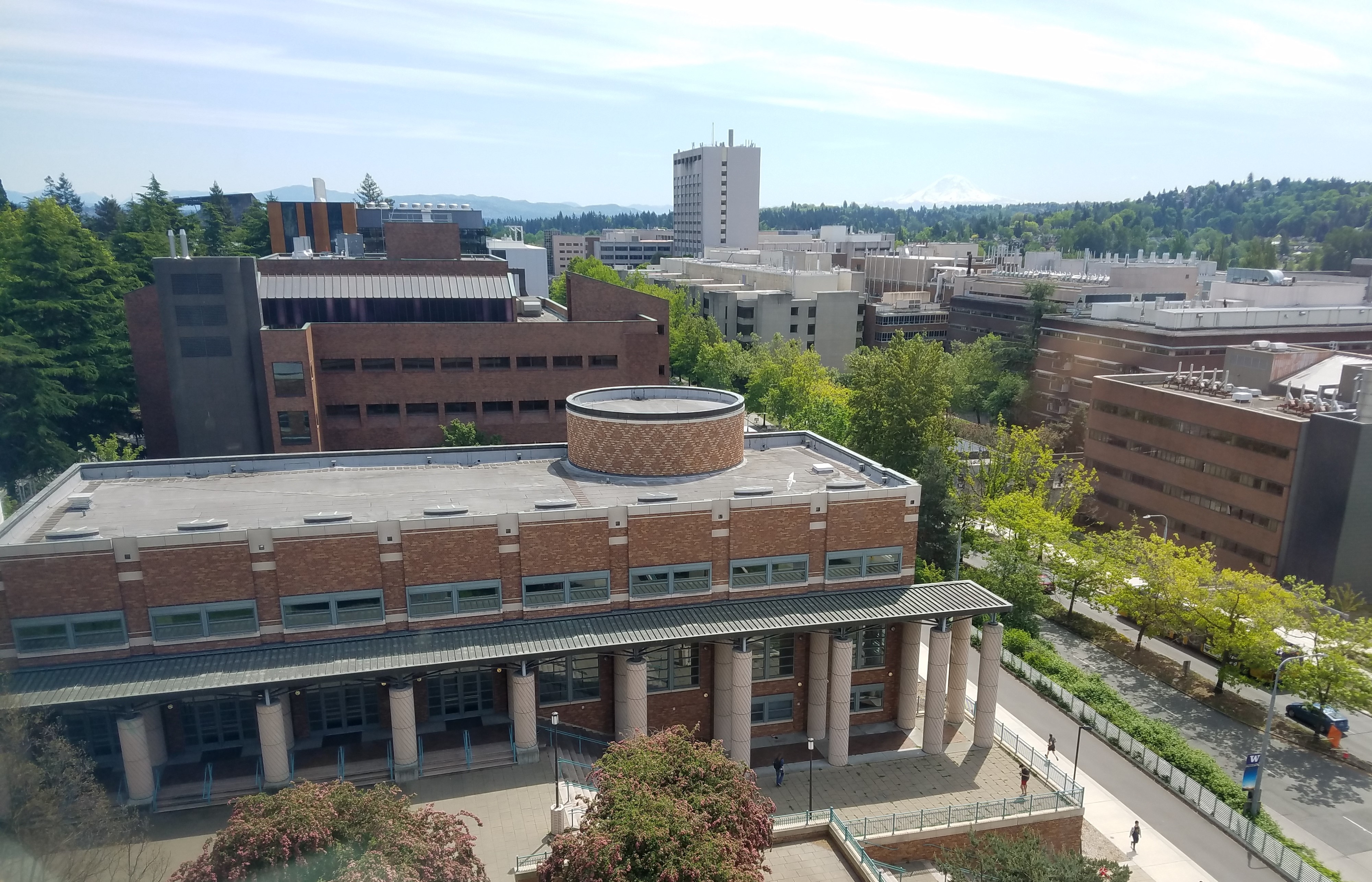 View of the Physics/Astronomy Auditorium (brick building in the foreground with the overhang and small rotunda on top) at the University of Washington in Seattle, as viewed from the Physics/Astronomy Tower.